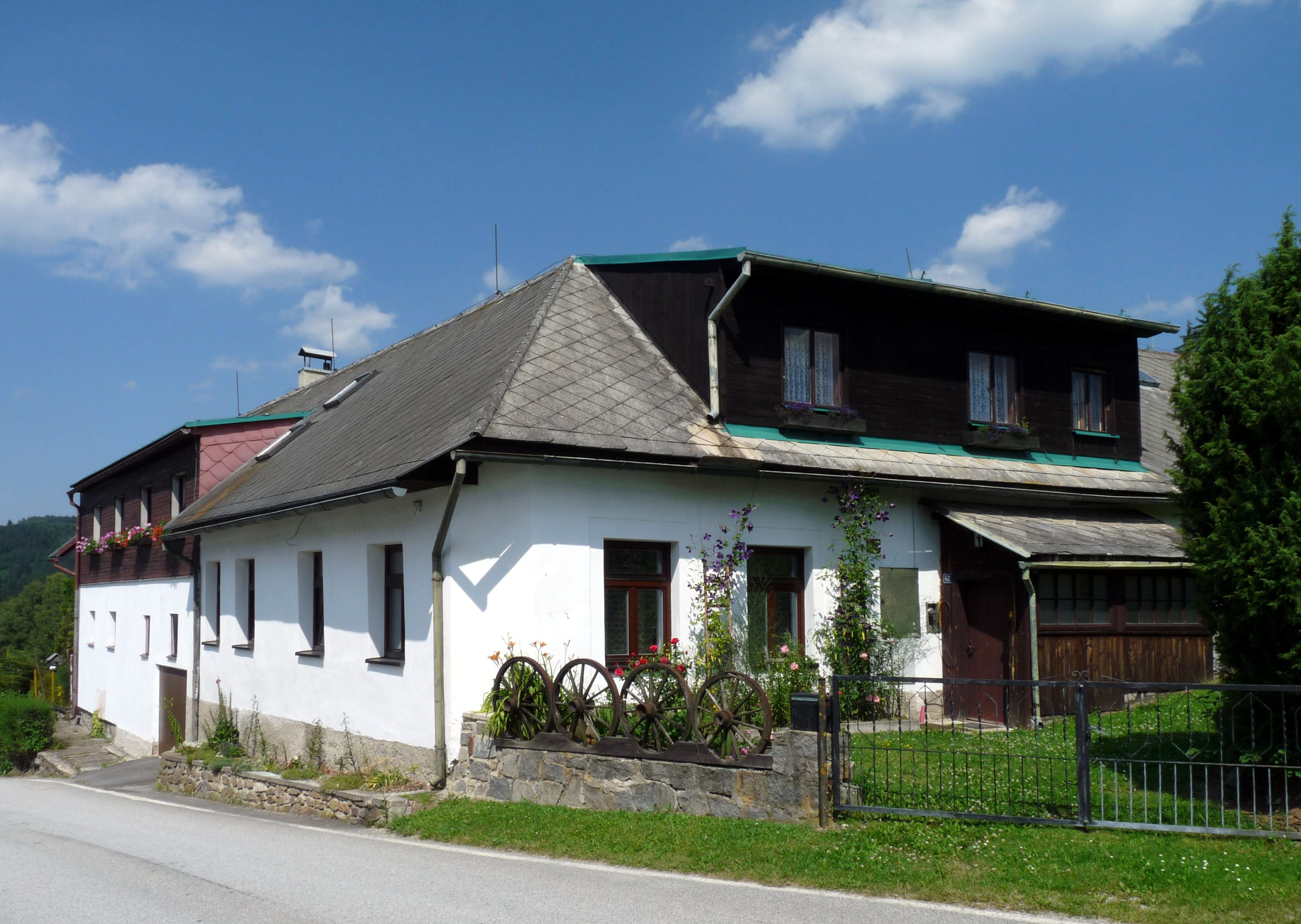 House No 42 in the village of Albrechtovice, Prachatice District, South Bohemian Region, Czech Republic.